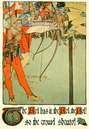 Charlotte Harding, Robin Hood, ca. 1903